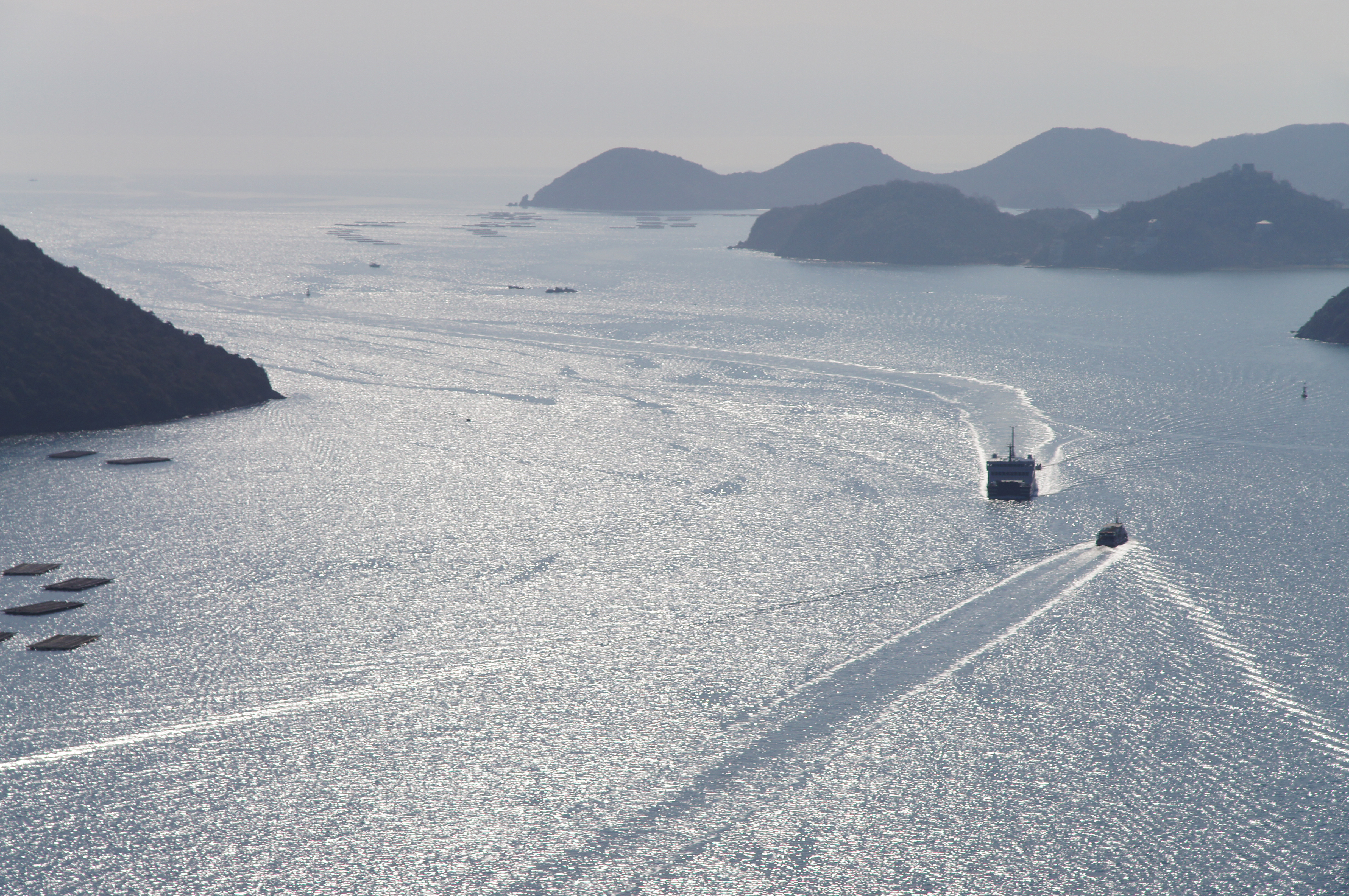 A view from Harbor View Park in Hinase, Bizen, Okayama prefecture, Japan